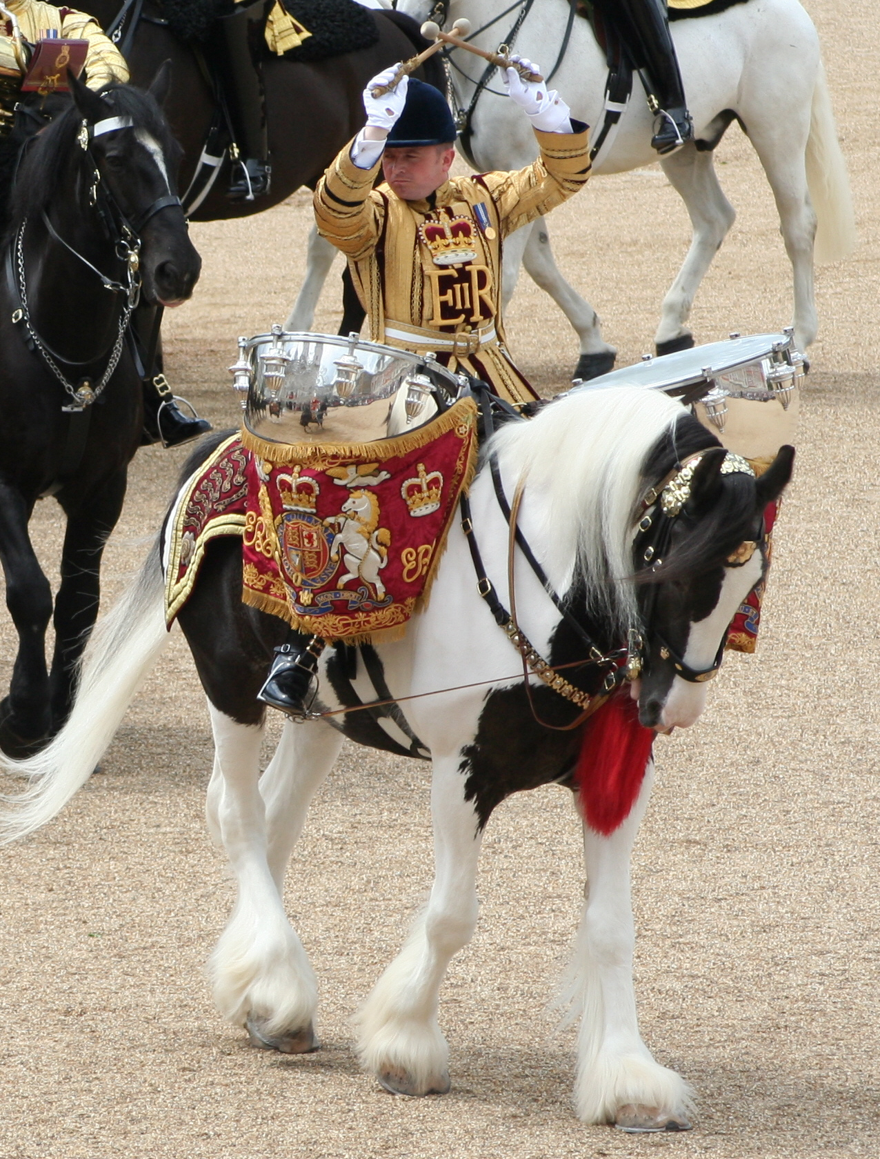 Drum Horse of the Household Cavalry, Trooping of the Colour 2007